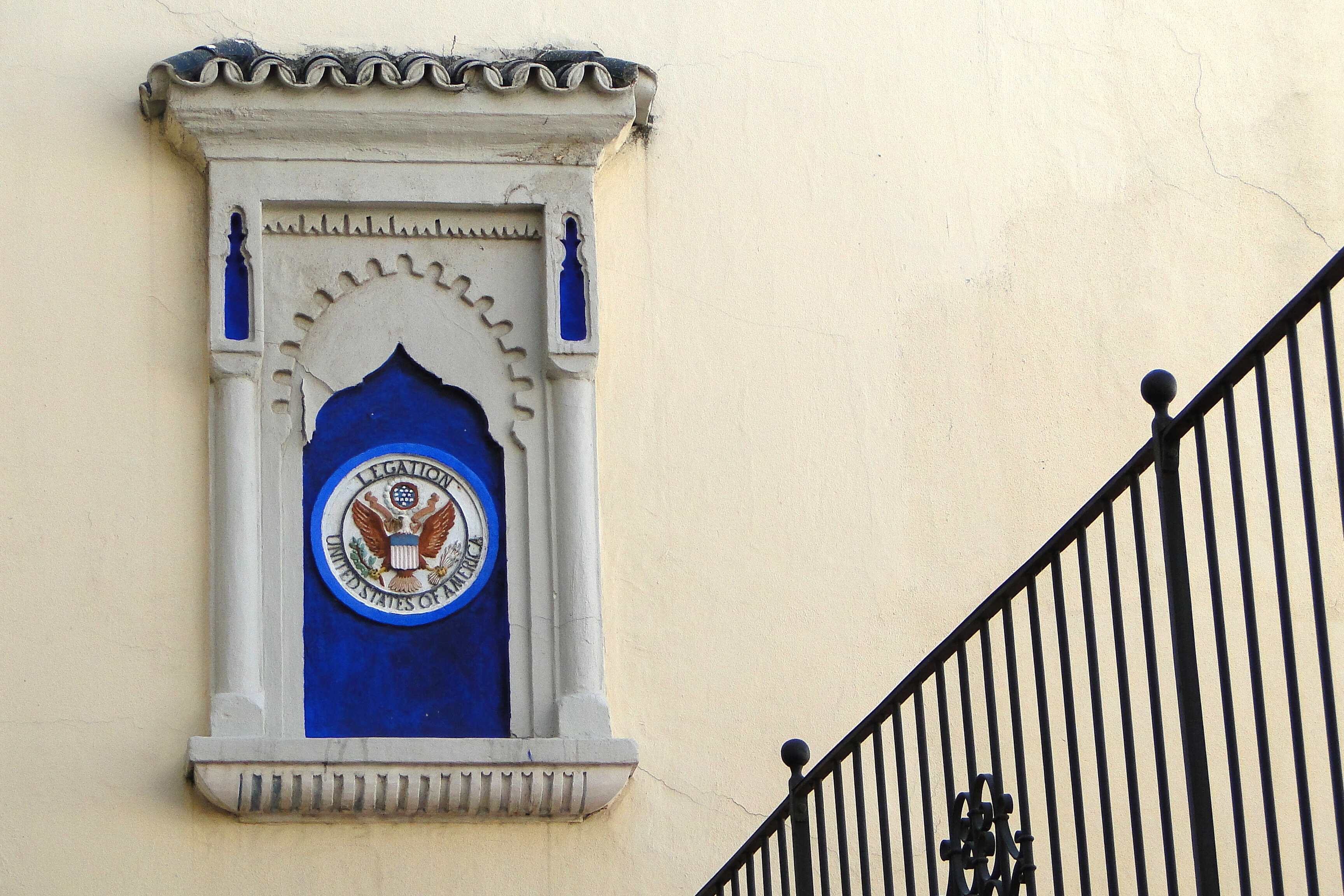 Federal seal at the American Legation, Tangier, Morocco